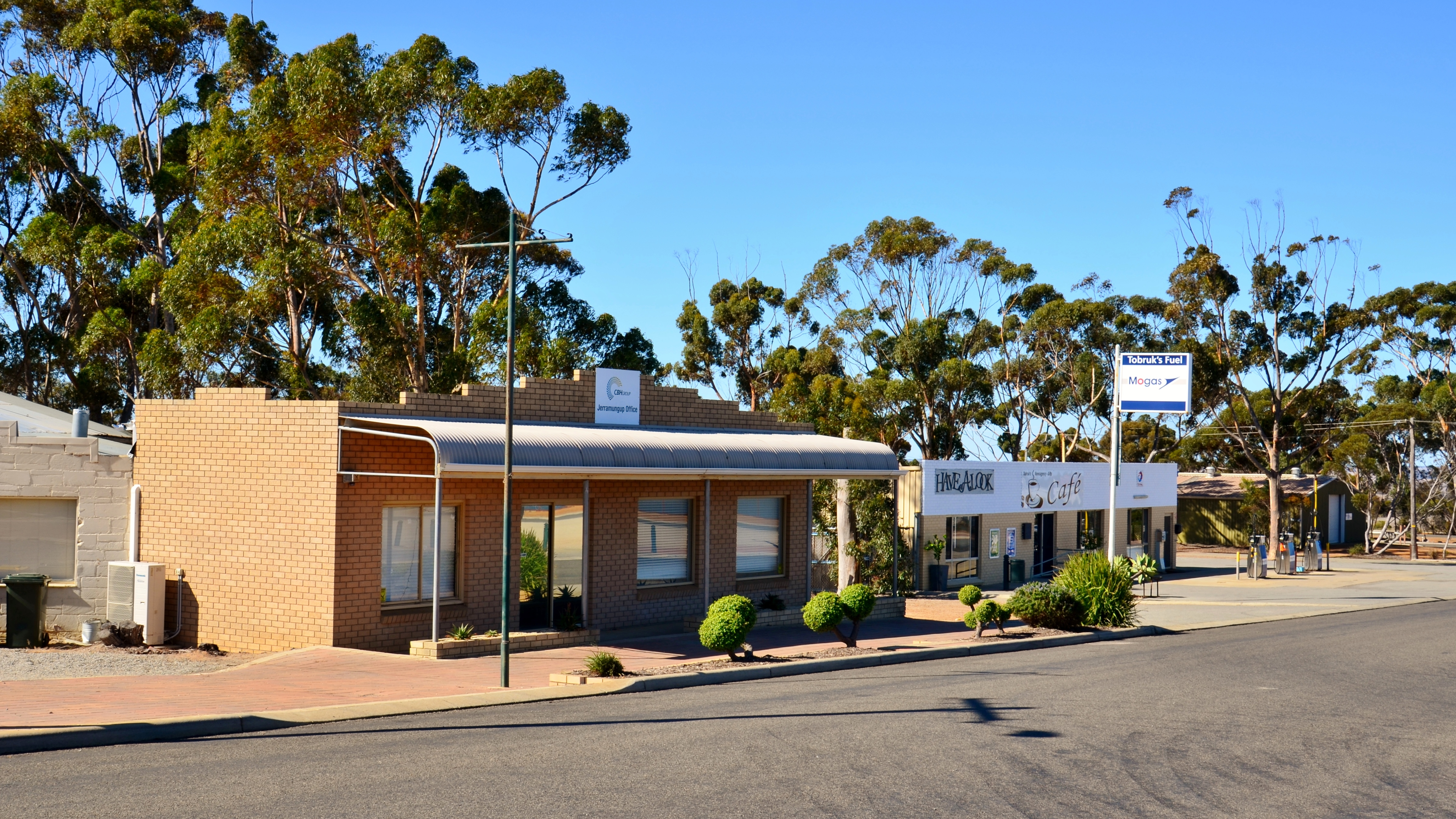 View of Tobruk Road, Jerramungup, Western Australia